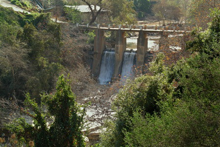 Jisr el Sid Dam, Mansourieh, in the Mount Lebanon Range, Lebanon.